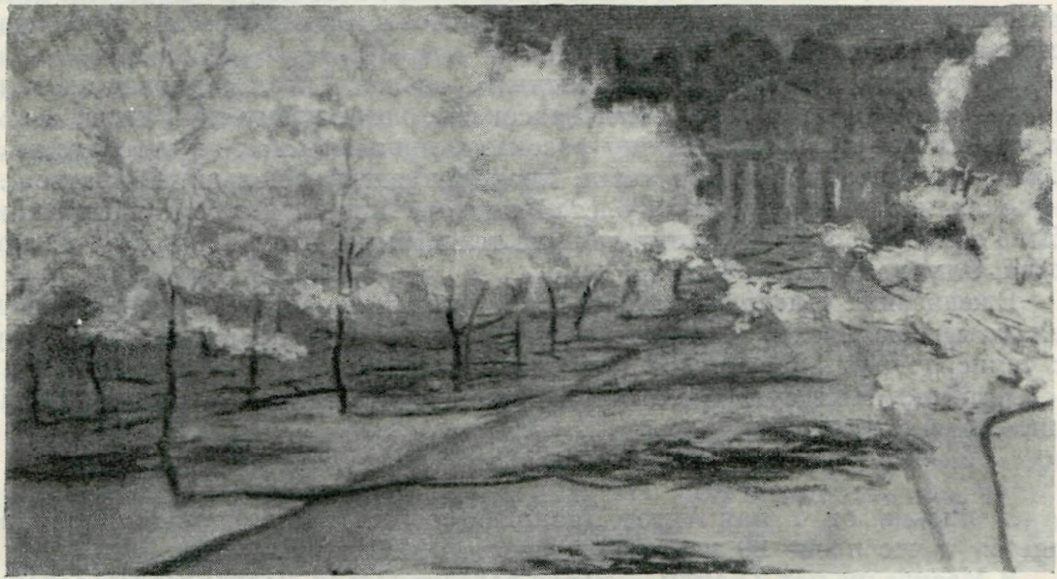 The Cherry Orchard. Aquarelle by A. Khotyaintseva. 1890s. Chekhov house-museum (White Dacha), Yalta